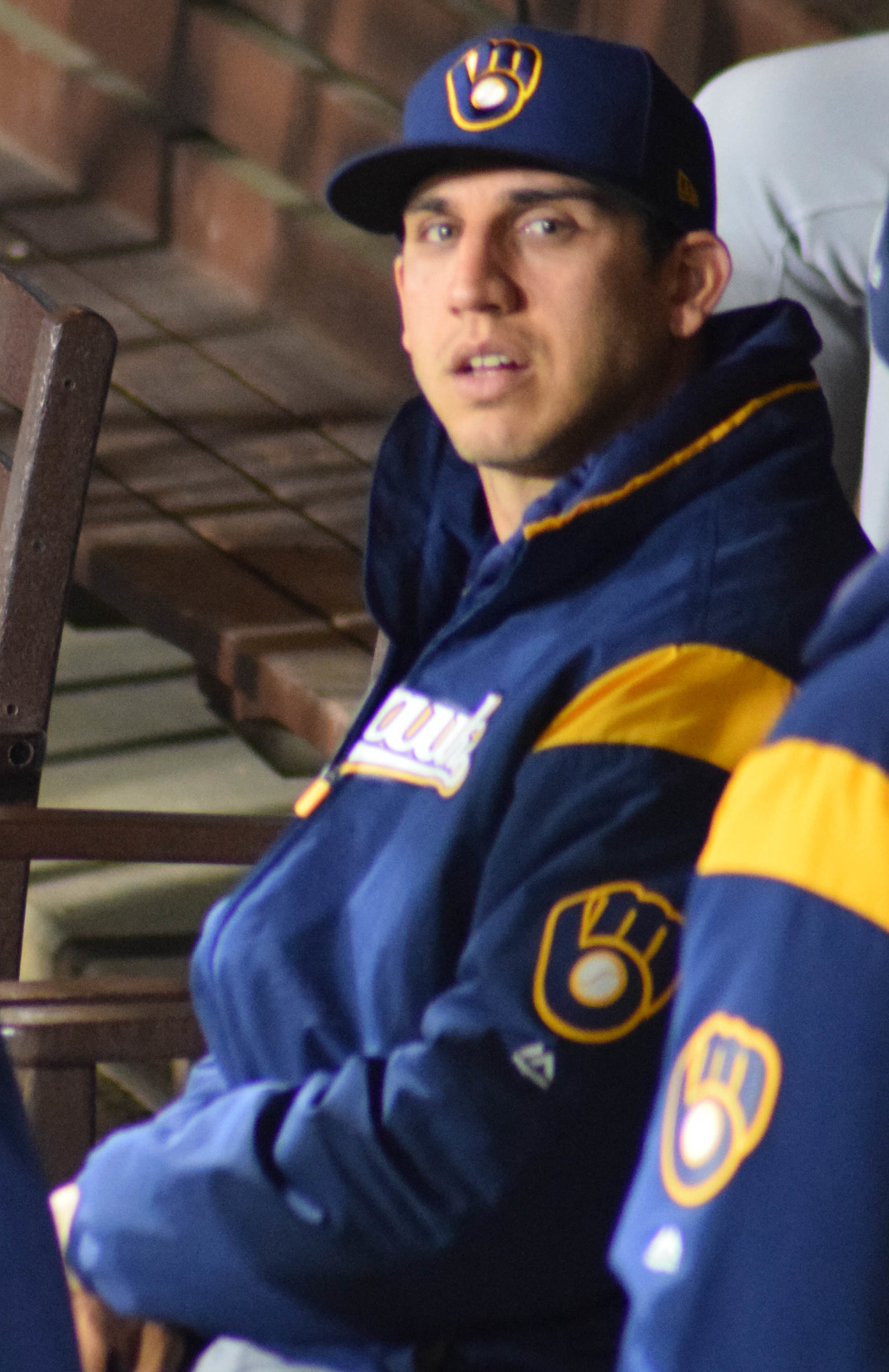 Jacob Barnes of the Milwaukee Brewers in the bullpen at Citizens Bank Park in 2019